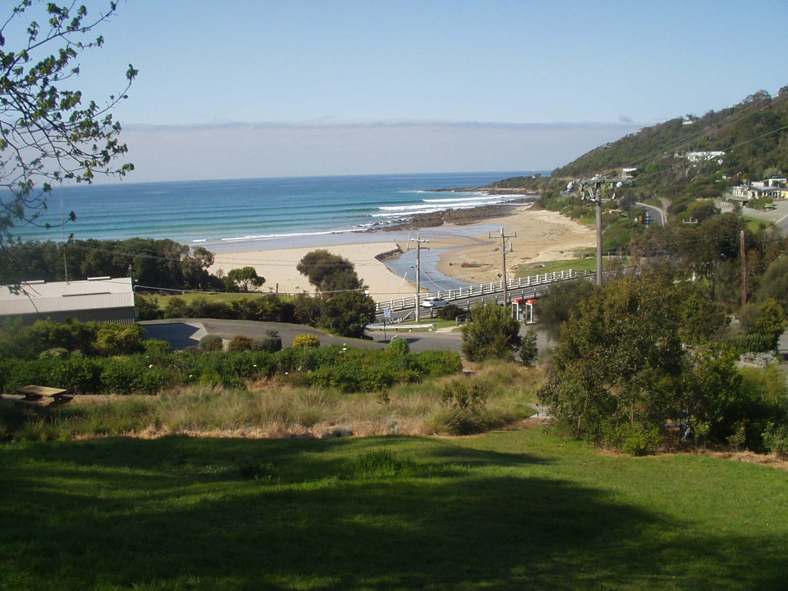 View of Wye River township, Great Ocean Road, Victoria, Australia. Photograph by: Aaron Doty